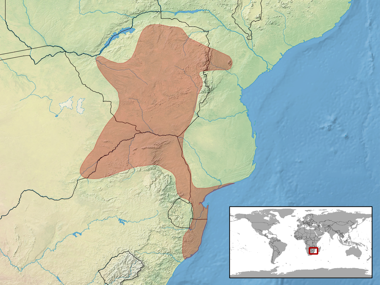 geographic distribution of Homopholis walbergii syn Homopholis wahlbergii (Native: Botswana; Mozambique; South Africa; Swaziland; Zimbabwe)